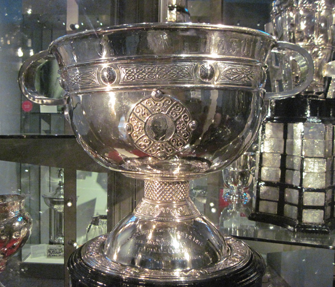 Created by Doyle